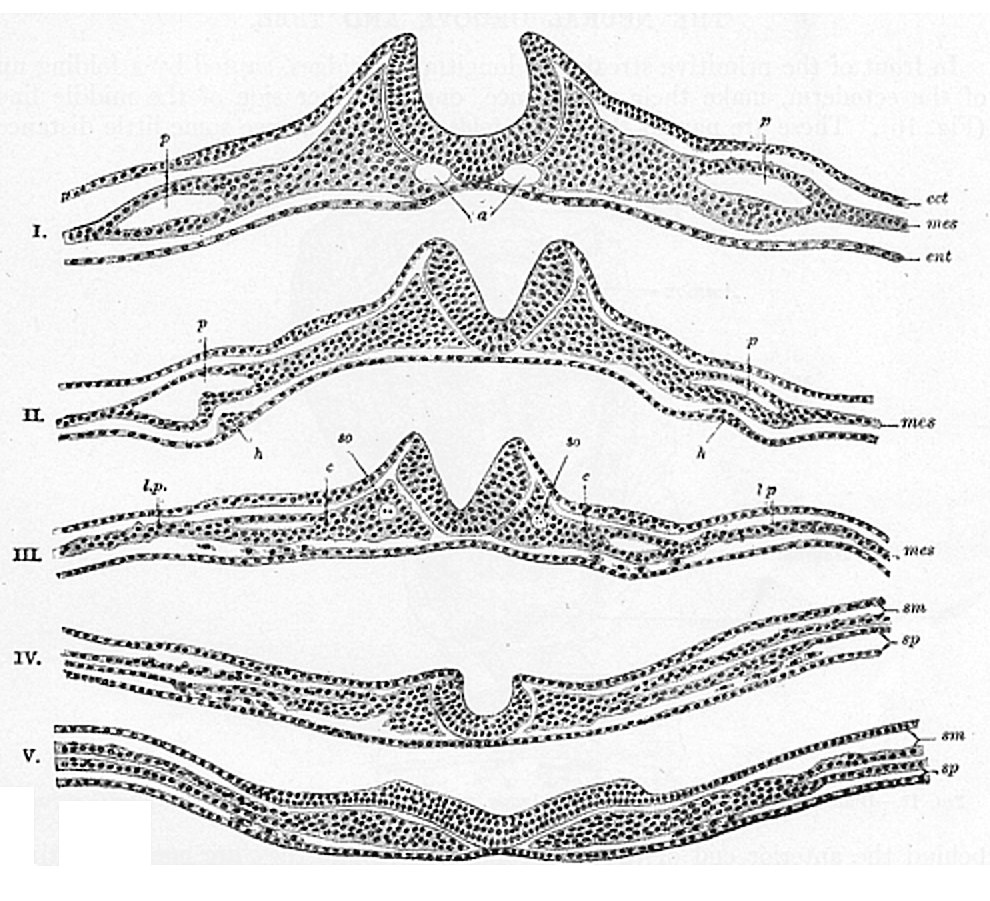 A series of transverse sections through an embryo of the dog. (After Bonnet.) Section I is the most anterior. In V the neural plate is spread out nearly flat. The series shows the uprising of the neural folds to form the neural canal. a. AortÃ¦. c. Intermediate cell mass. ect. Ectoderm. ent. Entoderm. h, h. Rudiments of endothelial heart tubes. In III, IV, and V the scattered cells represented between the entoderm and splanchnic layer of mesoderm are the vasoformative cells which give origin in front, according to Bonnet, to the heart tubes, h; l.p. Lateral plate still undivided in I, II, and III; in IV and V split into somatic (sm) and splanchnic (sp) layers of mesoderm. mes. Mesoderm. p. Pericardium. so. Primitive segment.